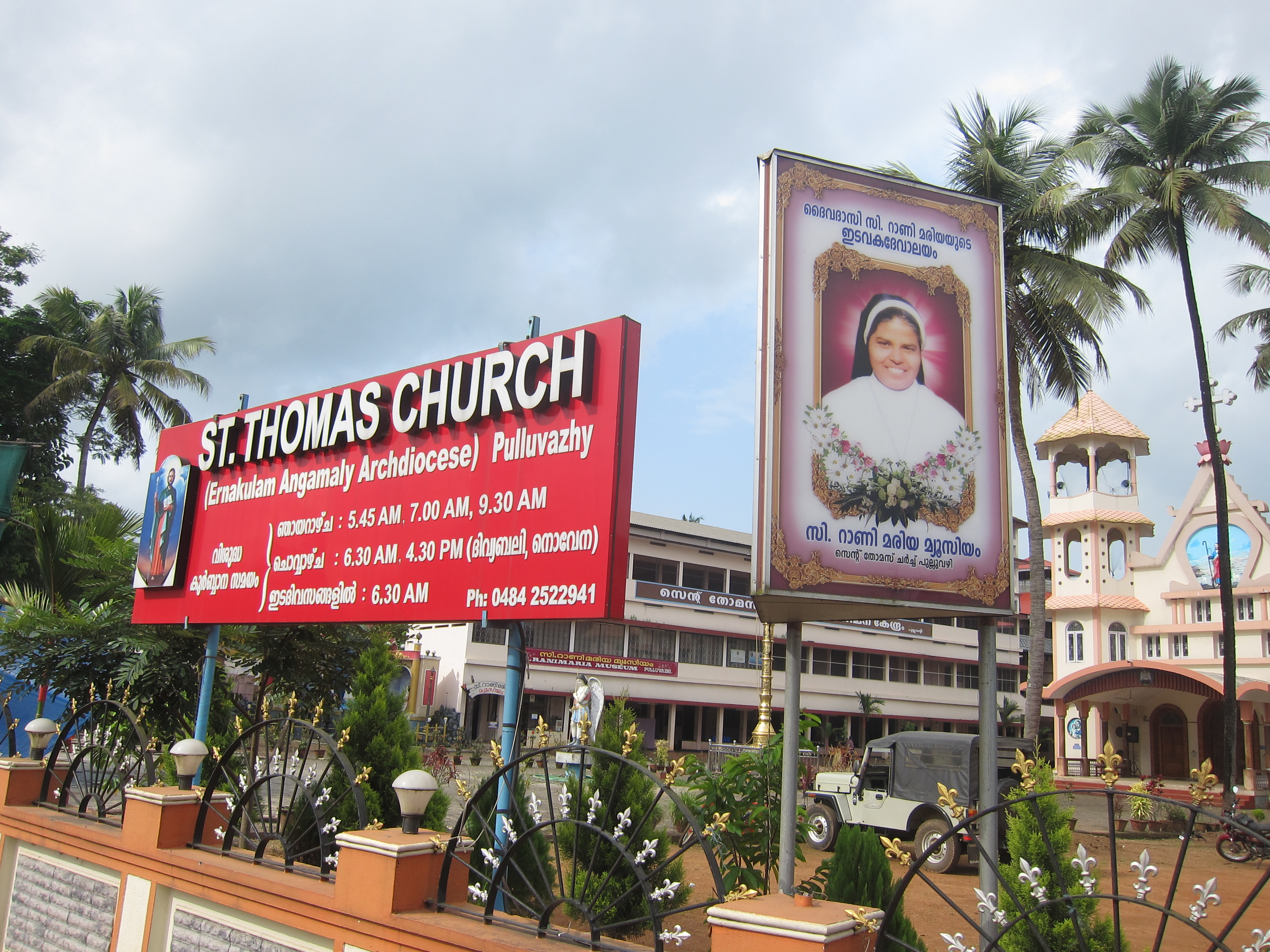 St: Thomas Church, Pulluvazhy സെന്റ് തോമസ് ചർച്ച്, പുല്ലുവഴി എറണാകുളം അങ്കമാലി അതിരൂപതയുടെ കീഴിൽ...